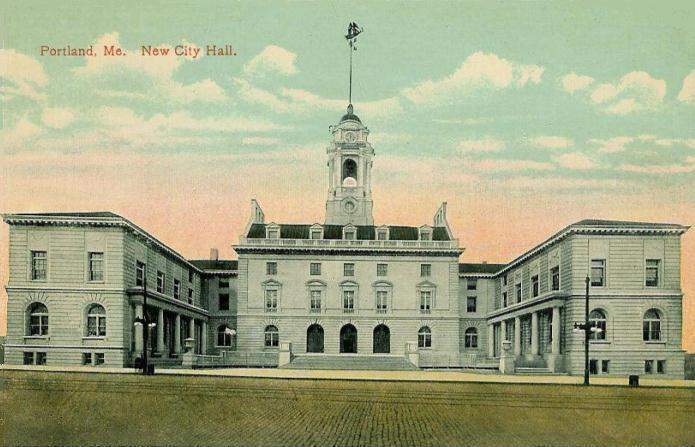 Designed by the NYC firm Carrère and Hastings, the building was constructed in 1909 to replace its predecessor which burned the year before. From: Image:City Hall, Portland, ME.jpg by Hugh Manatee, 10/5/2006 15:55 (UTC)